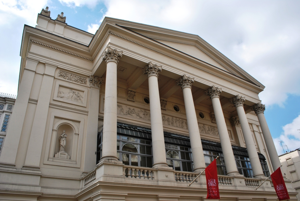 Royal Opera House